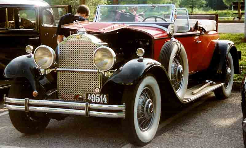 Packard Seventh series 733 Eight Roadster 1930